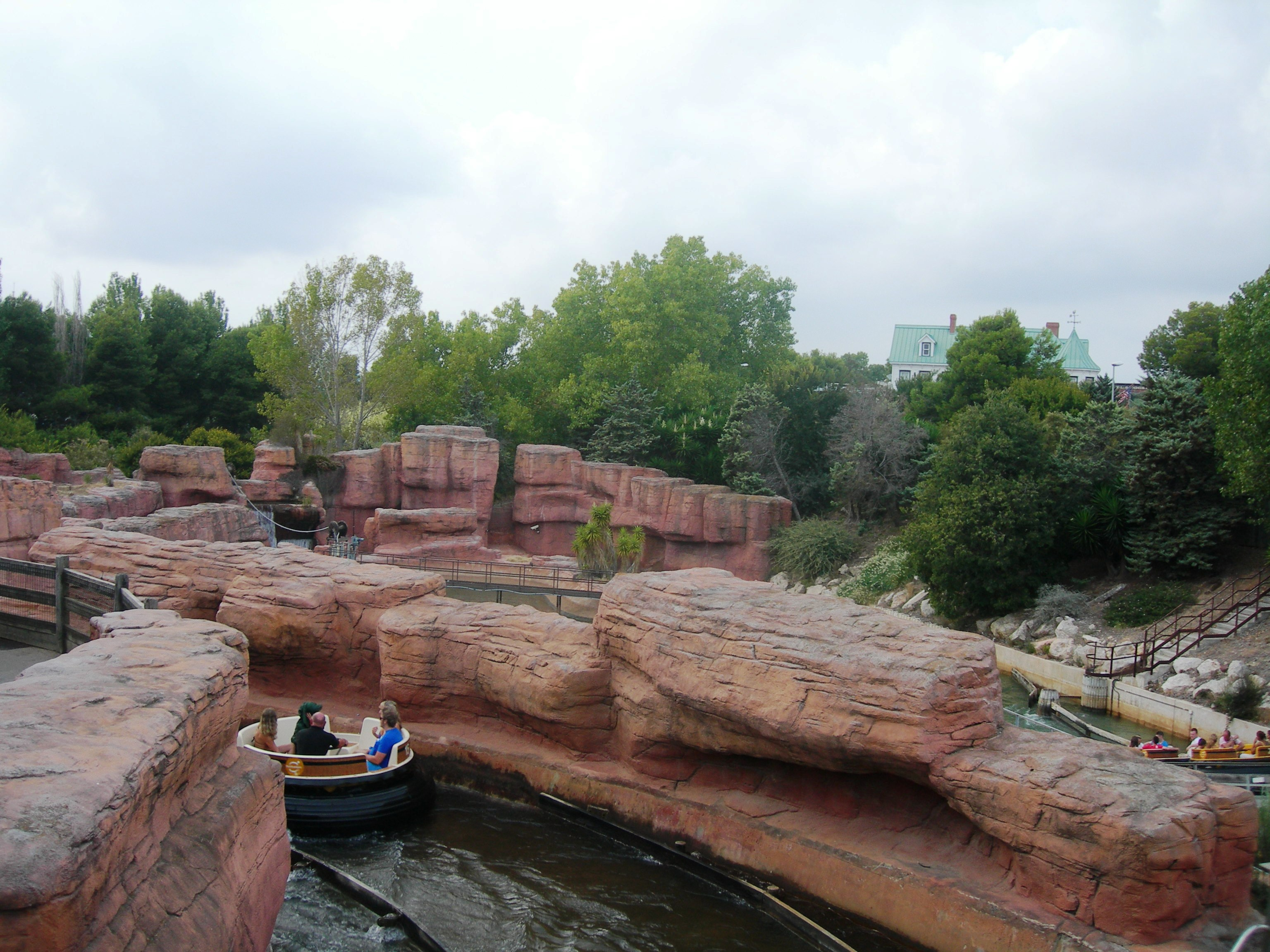 Grand Canyon Rapids